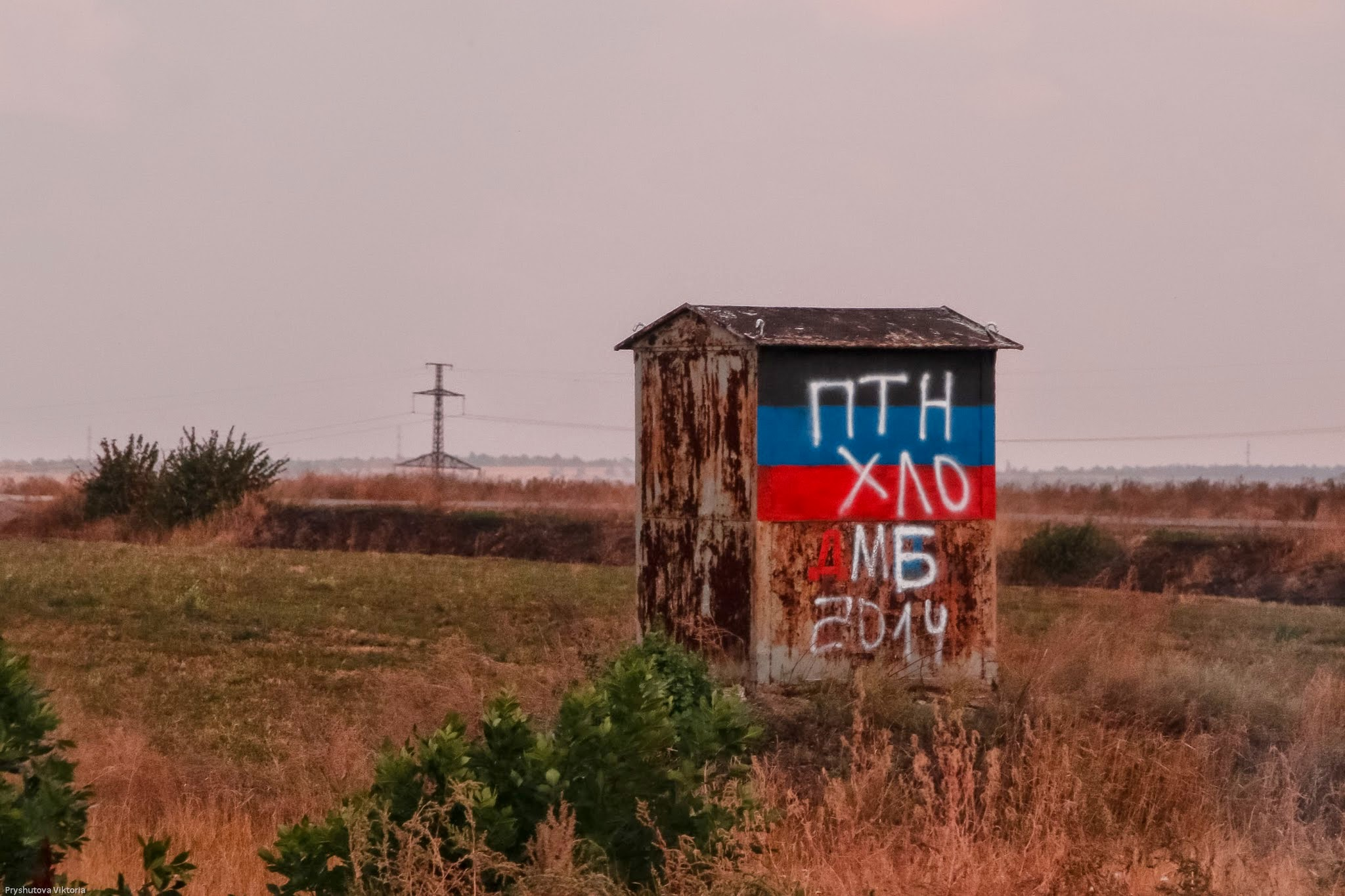 Anti-Putin graffiti in Debaltseve, September 2014.